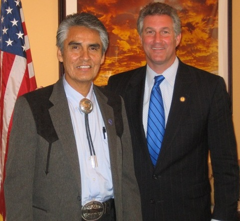 Navajo Nation President Joe Shirley (left) and Congressman Rick Renzi (right).